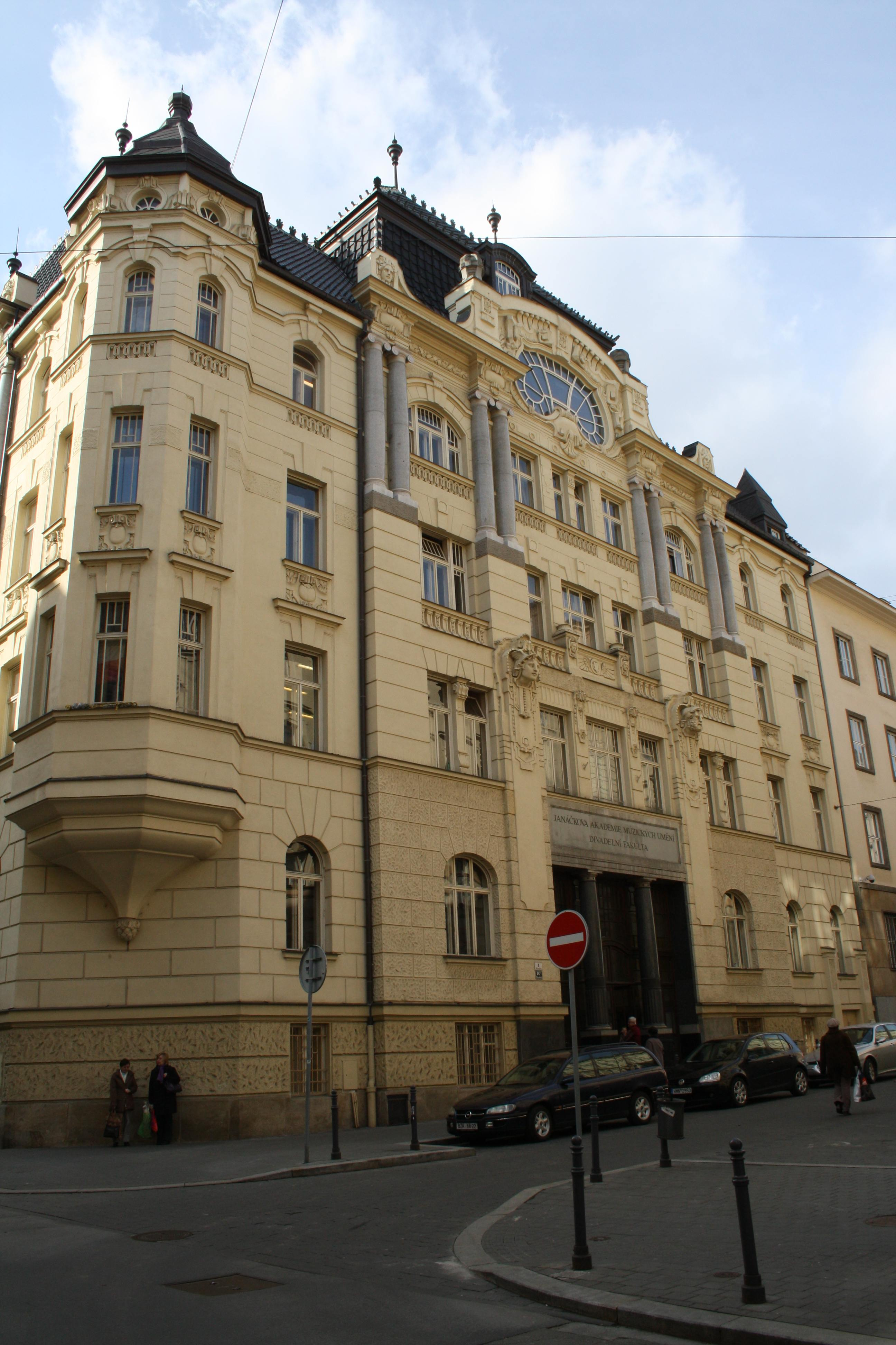 Building of Faculty of Theatre of Janáček Academy of Music and Performing Arts in Brno.